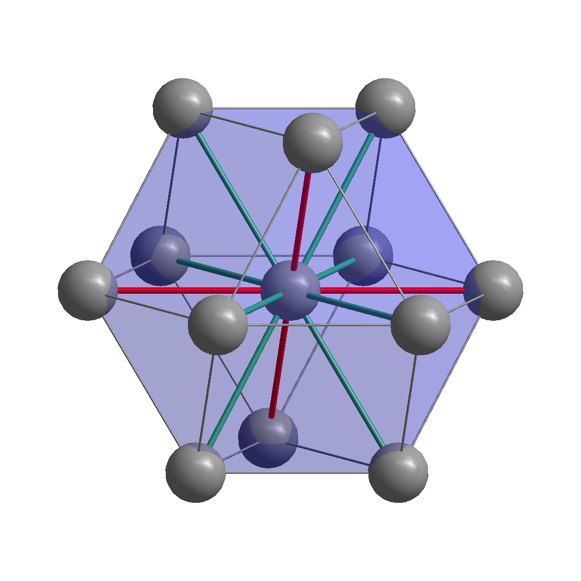 Crystal structure of indium: coordination polyhedron about one indium atom in the shape of a distorted cube-octahedron.